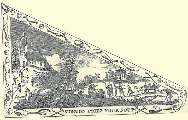 A vignet or flag dedicatet to Saint Drogo. I8th. century